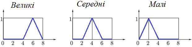 Функції приналежності термів лінгвістичної змінної «Витрати»